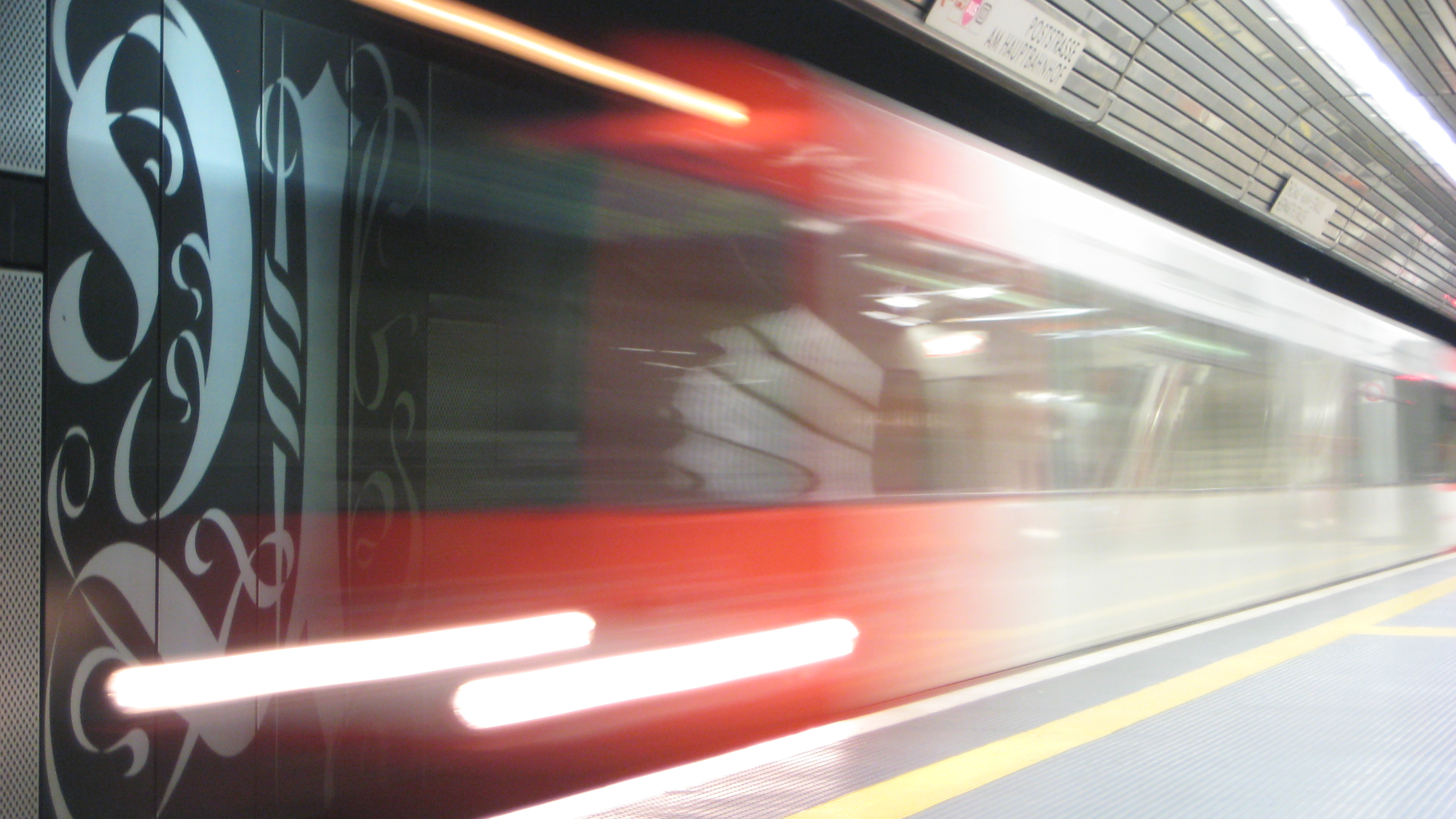 The 16 Bad Godesberg train arriving on time at the Bonn Hauptbahnhof station, as per usual in Bonn.